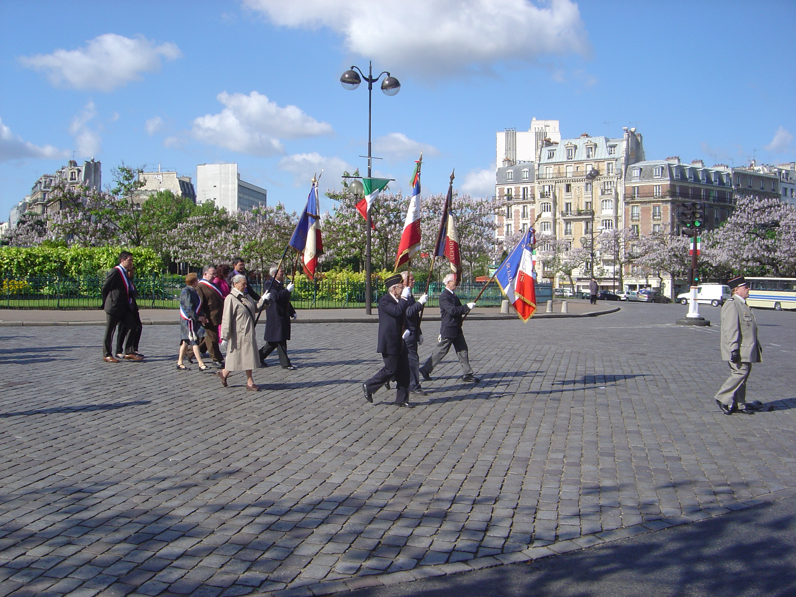 WW2 veterans, ceremonies of May 8, 2005, Place d'Italie, Paris, France